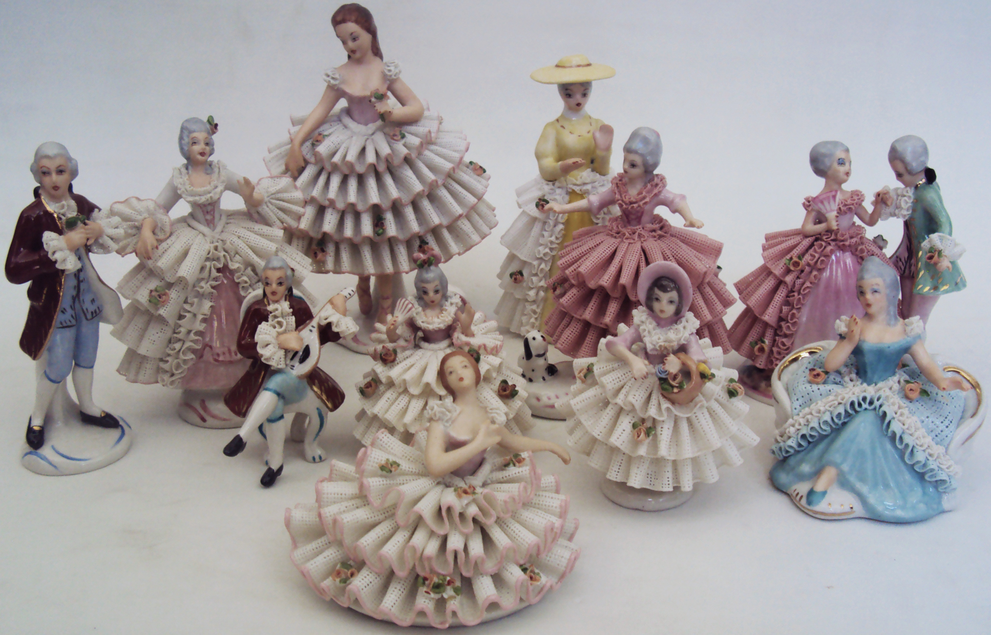 Porcelain figures by Rebis